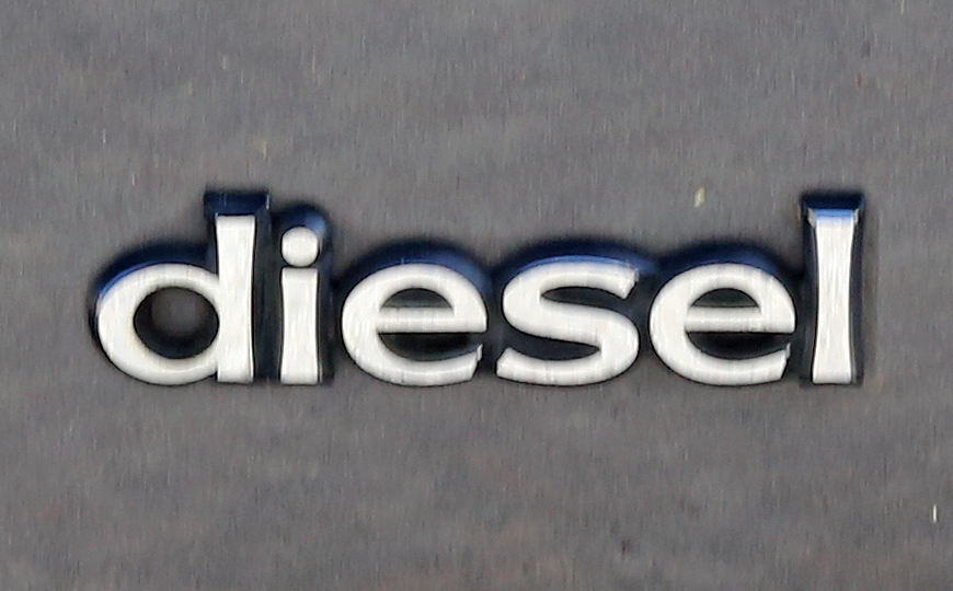 "Diesel" logo on a 1982 Buick LeSabre Limited sedan. This engine was built by Oldsmobile.